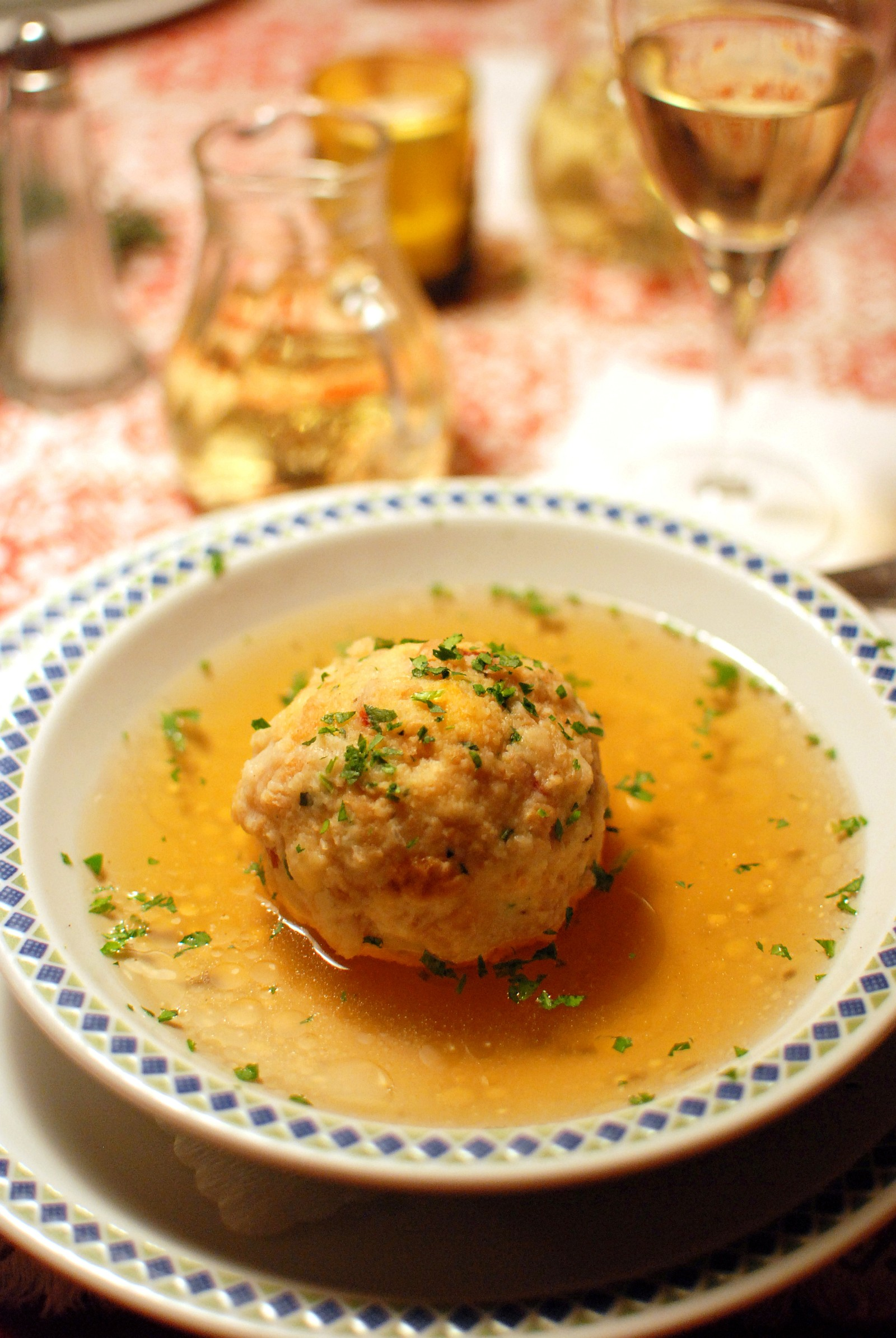 Tiroler Speckknödelsuppe is soup with a "Tiroler Knödel/Speckknödel", a large dumpling. The dumpling is basically a "Semmelknödel", a German bread dumpling, with the addition of bacon. The photo was taken at a South Tyrolean restaurant in the town of Herrsching, Bavaria, Germany.